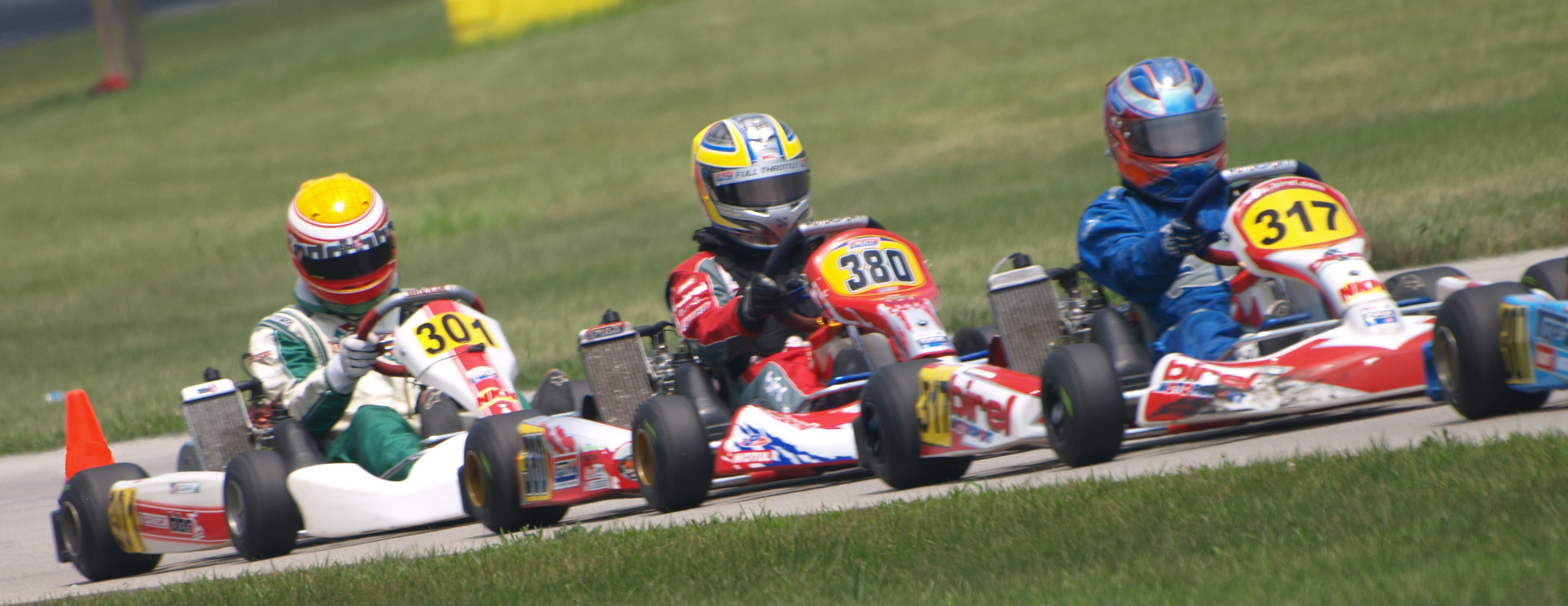 Jr Rotax Final - 2010 US Grand Nationals - Kart #317 RC Enerson - New Port Richey, FL